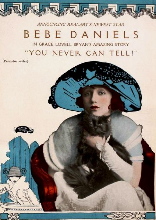 Ad for the American comedy film You Never Can Tell (1920) with Bebe Daniels, on page 4731 of the June 12, 1920 Motion Picture News.